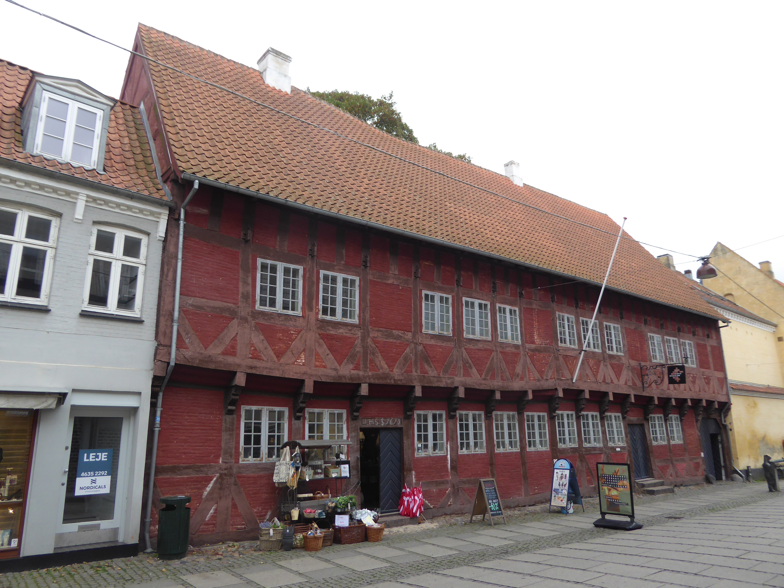 The local historical Køge Museum at Nørregade in Køge in Denmark.